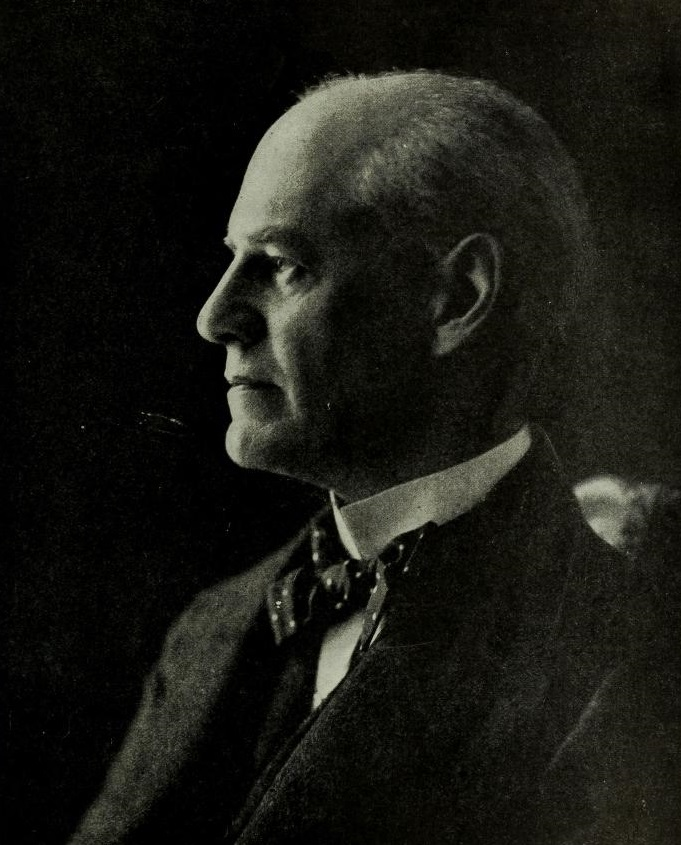 Picture of John Galsworthy